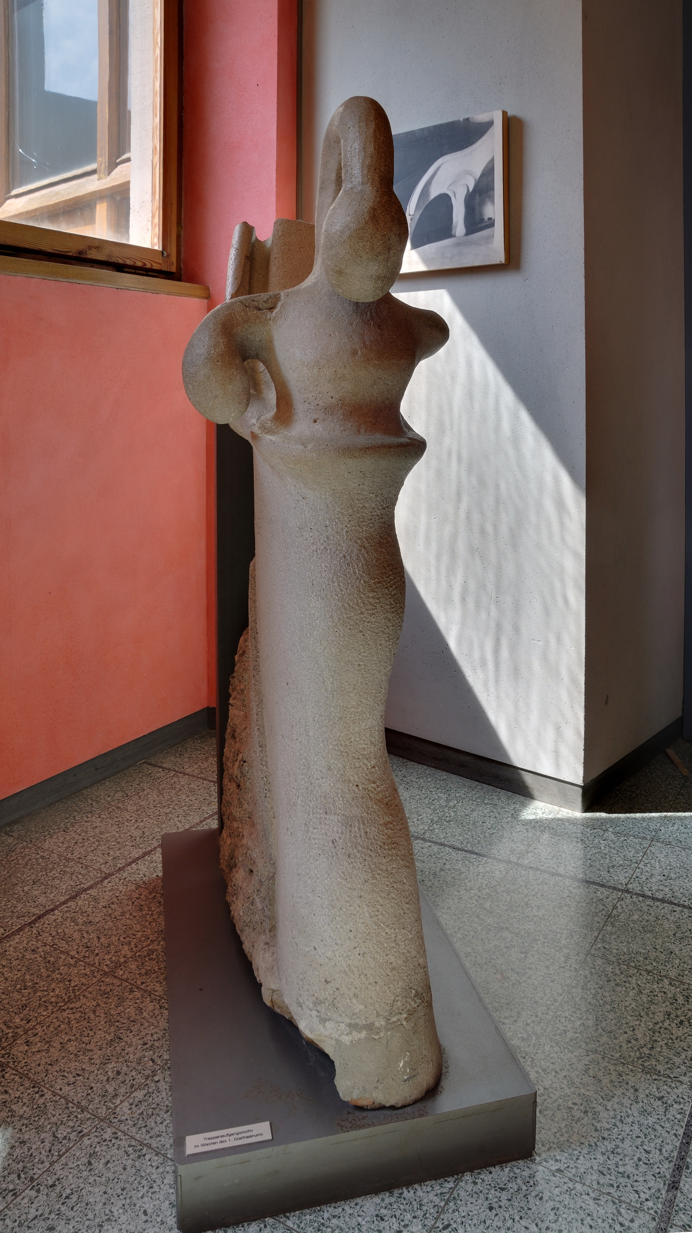 Goetheanum: Remaining newel of first Goetheanum